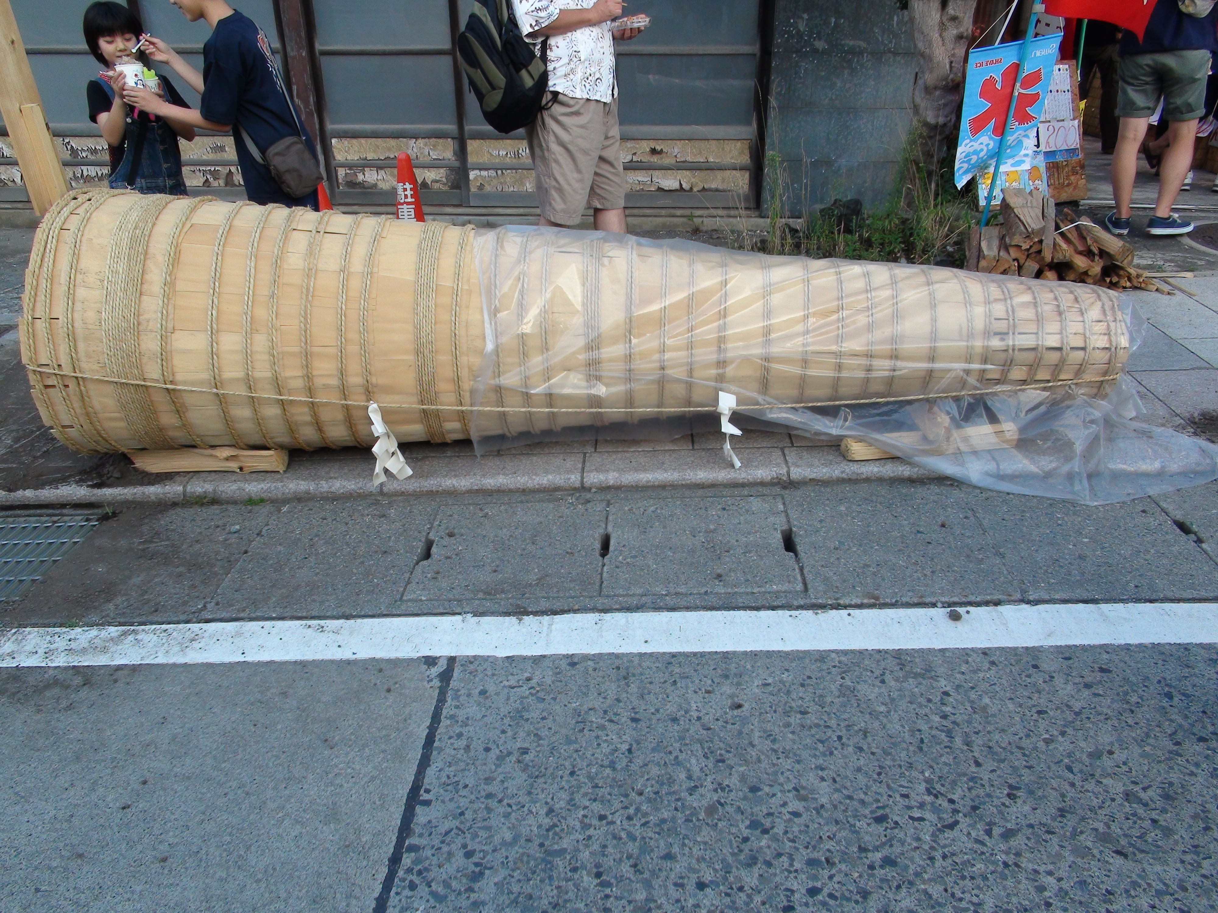 Yoshida Fire Festival large torches placed on the sidewalk